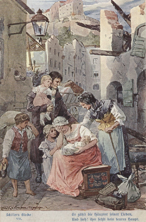 illustration of Friedrich Schiller's "Song of the Bell" (German: "Das Lied von der Glocke")